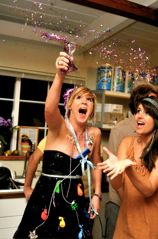 Woman scattering confetti at a party